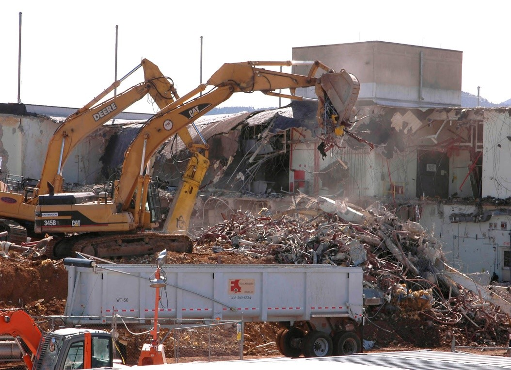 Industrial buildings at the Rocky Flats Site are demolished as part of the cleanup and remediation. The demolition of these structures at took place from 1995 through 2007.